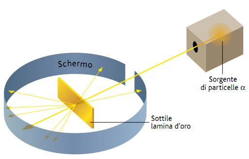 Rutherford scattering.